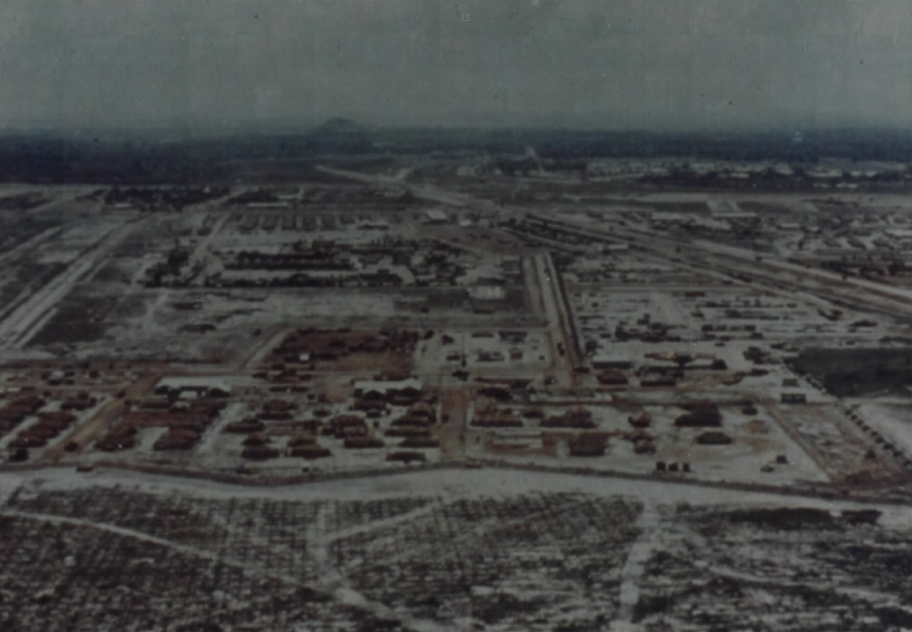 Aerial view of a portion of the west perimeter at Di An, the headquarters of the 1st Infantry Division. In the foreground is an embankment with bunkers for crew-served weapons built in. In the front of the embankment is a barbed wire entanglement and a clearing. The 168th Engineer Battalion is camped just inside this portion of the perimeter.